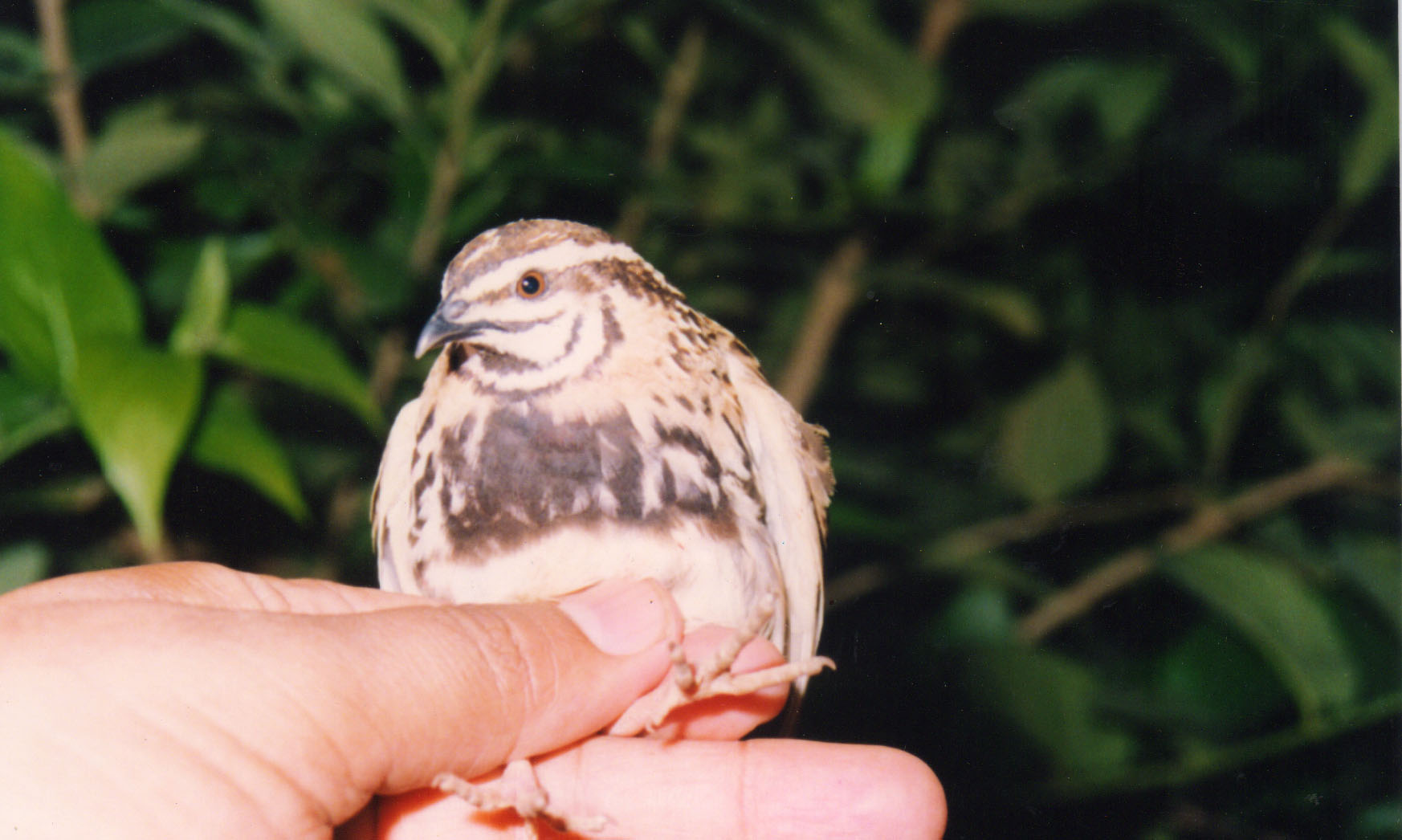 Rain Quail Coturnix coromandelica Male Amravati (8). Maharashtra, India